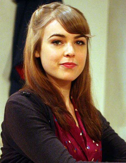 Emily Barclay: This Is Our Youth Tour, Play Comes To Sydney Opera House 2012.